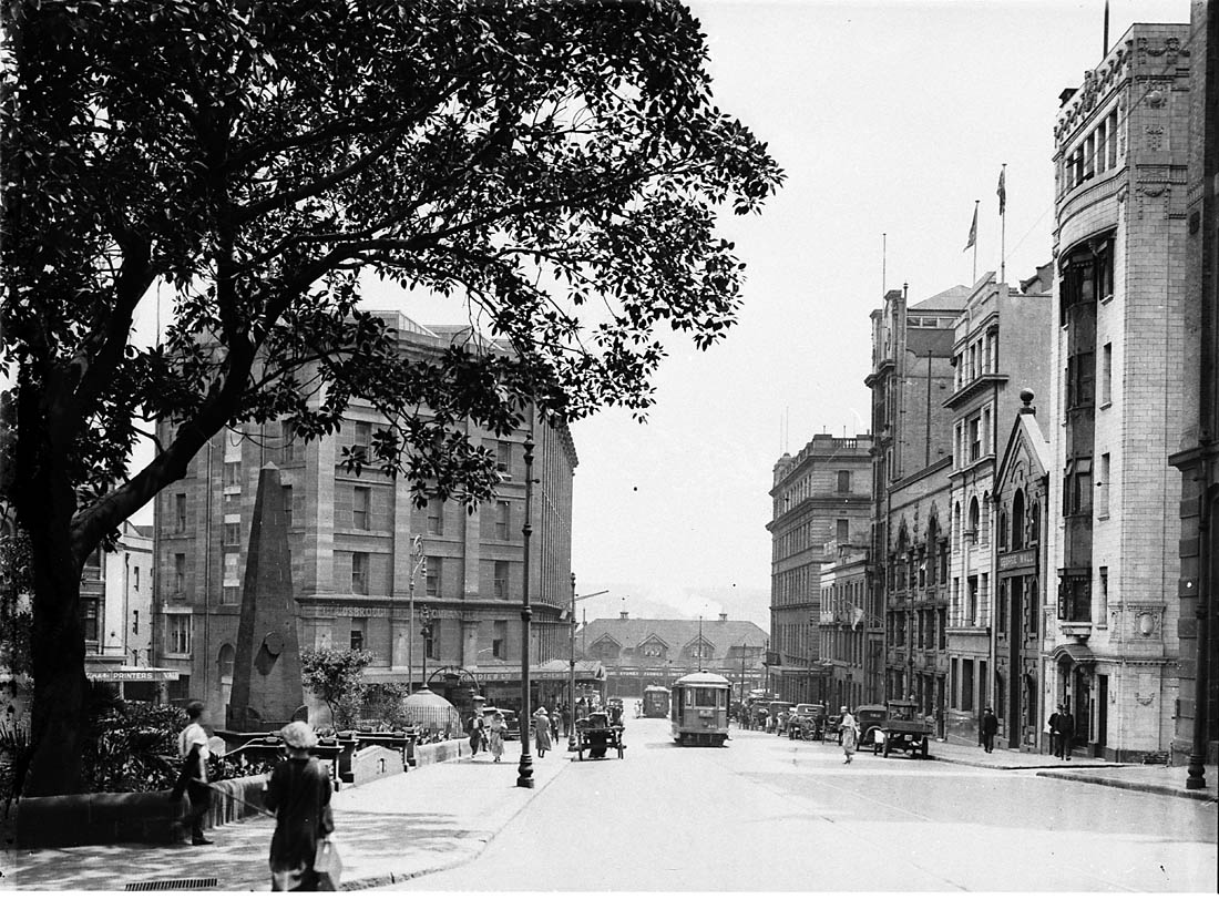 Macquarie Place, Sydney in the 1920s. Nos 1-13, 4-20 Macquarie Place; (Goldsbrough Mort, etc)